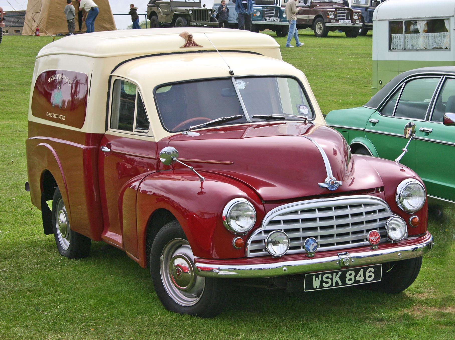 In 1950 the Morris MO Oxford was joined by a Van version, the Morris Cowley MCV. This was available as Van, Pickup, and Chassis Cab and was produced until 1956. Unlike the saloon cars, the MCV had a separate chassis